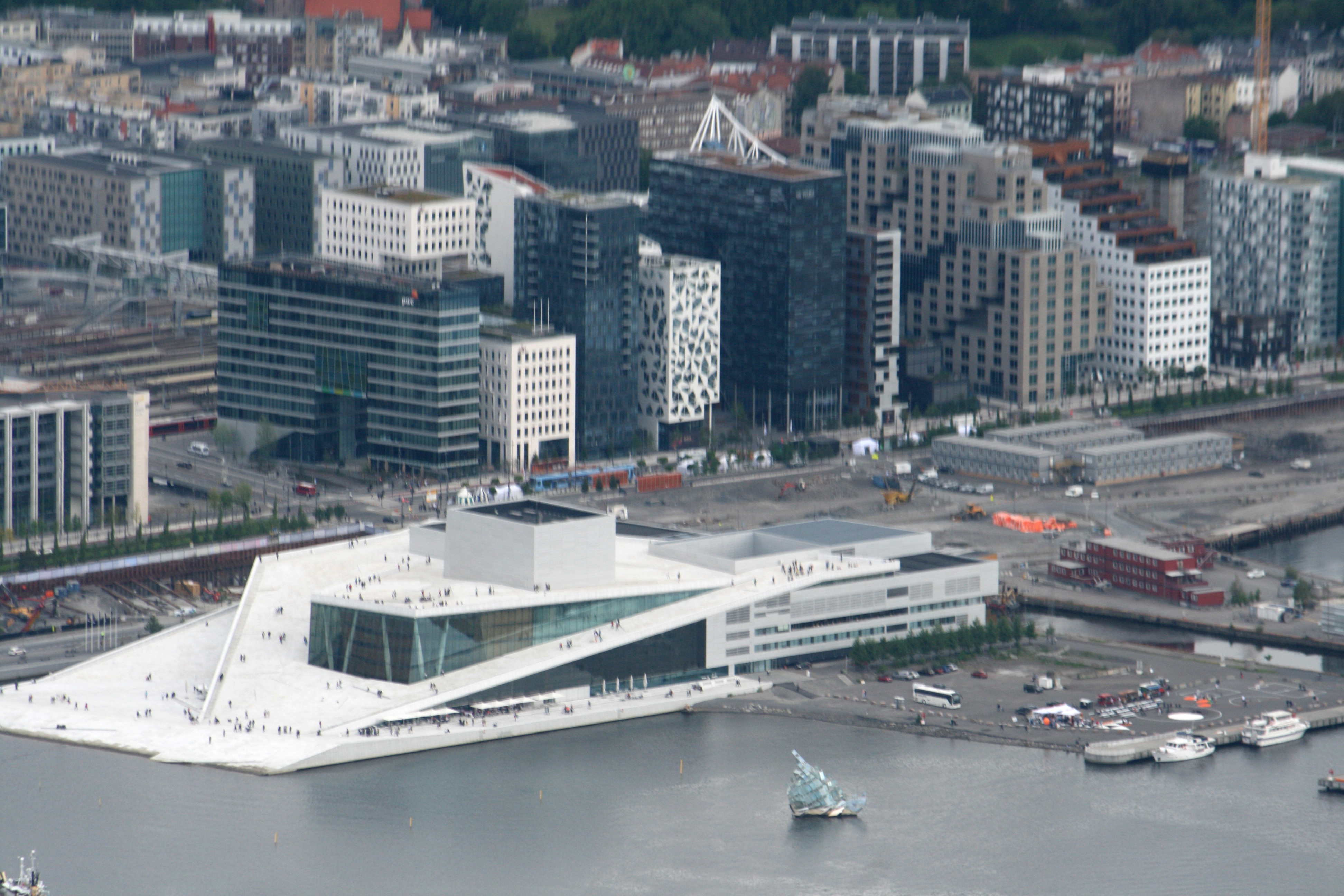 Aerial photograph from June 14th, 2015. The Bjørvika area in Oslo with the Opera House and the Barcode line of buildings.